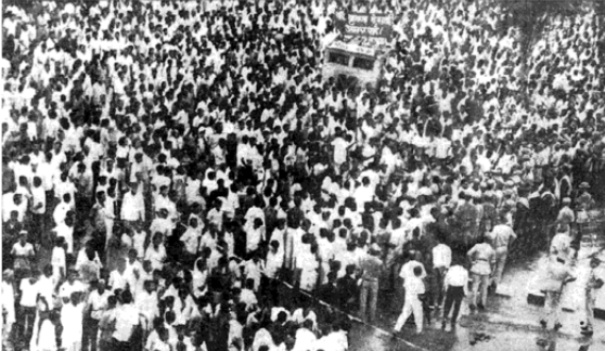 Funeral Procession for Krishna Desai. Source Yugantar, June 14, 1970